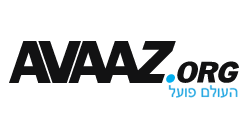 Logo Avaaz